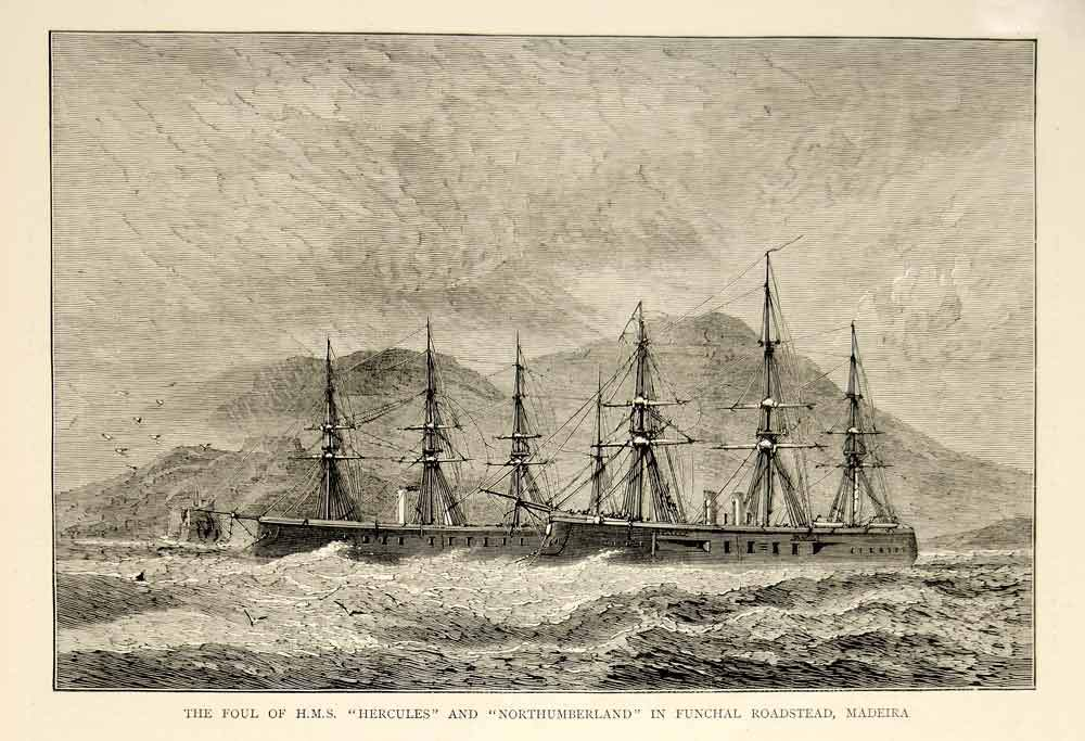 The Foul of HMS Hercules and Northumberland in Funchal Roadstead, Madeira, during a gale in 1872, published by The Graphic, 1873